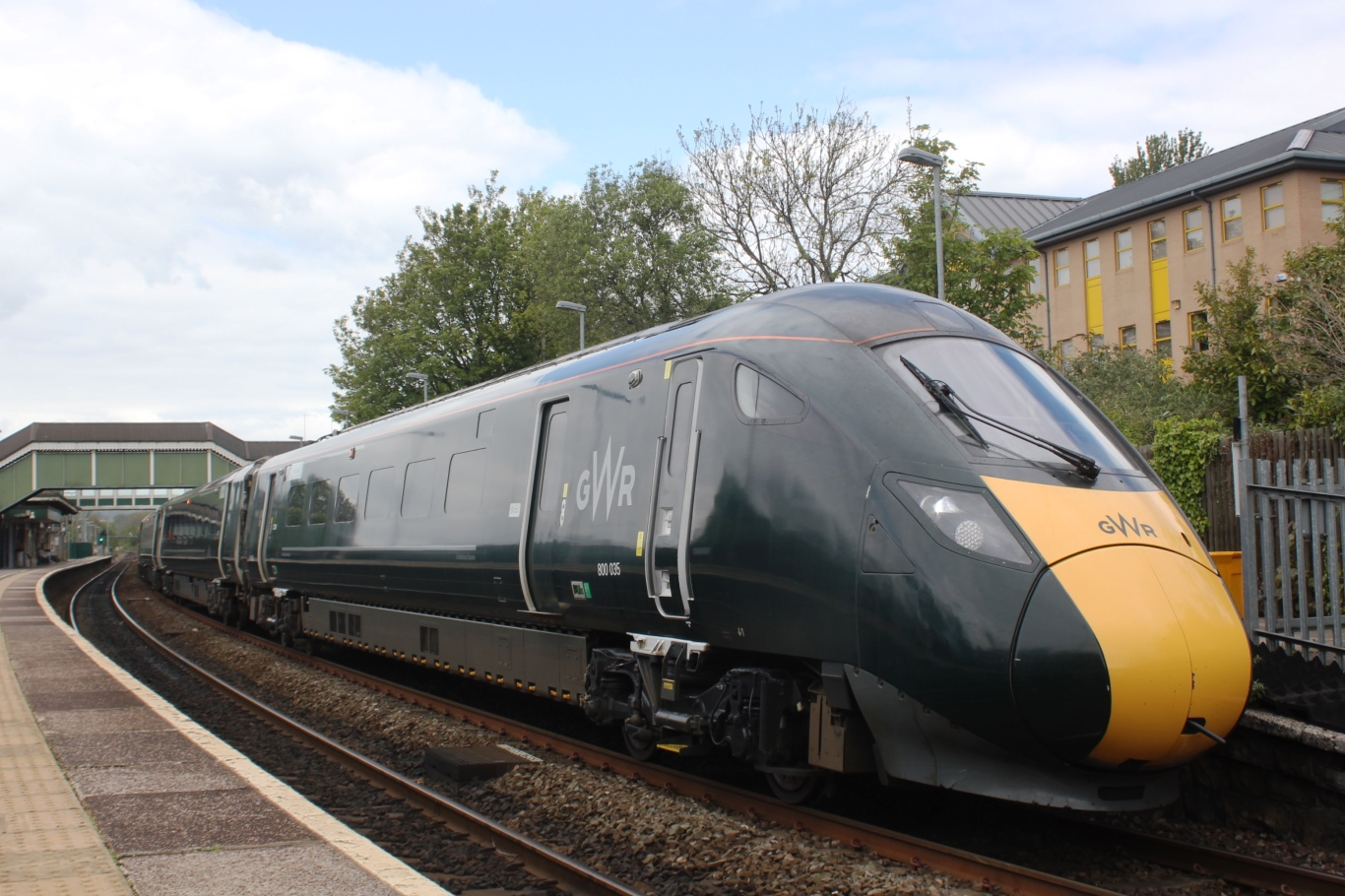 Units 800035 and 800018 call at Bridgend with a Great Western Railway service from Swansea to London Paddington.